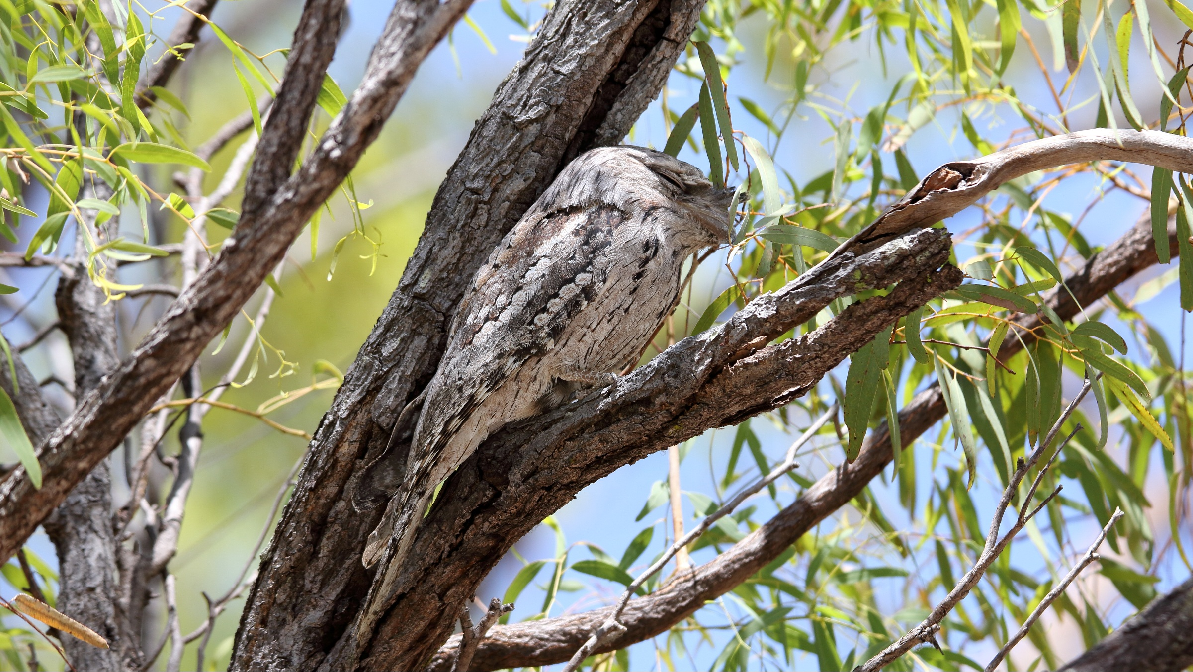 Tawny Frogmouth (Podargus strigoides)